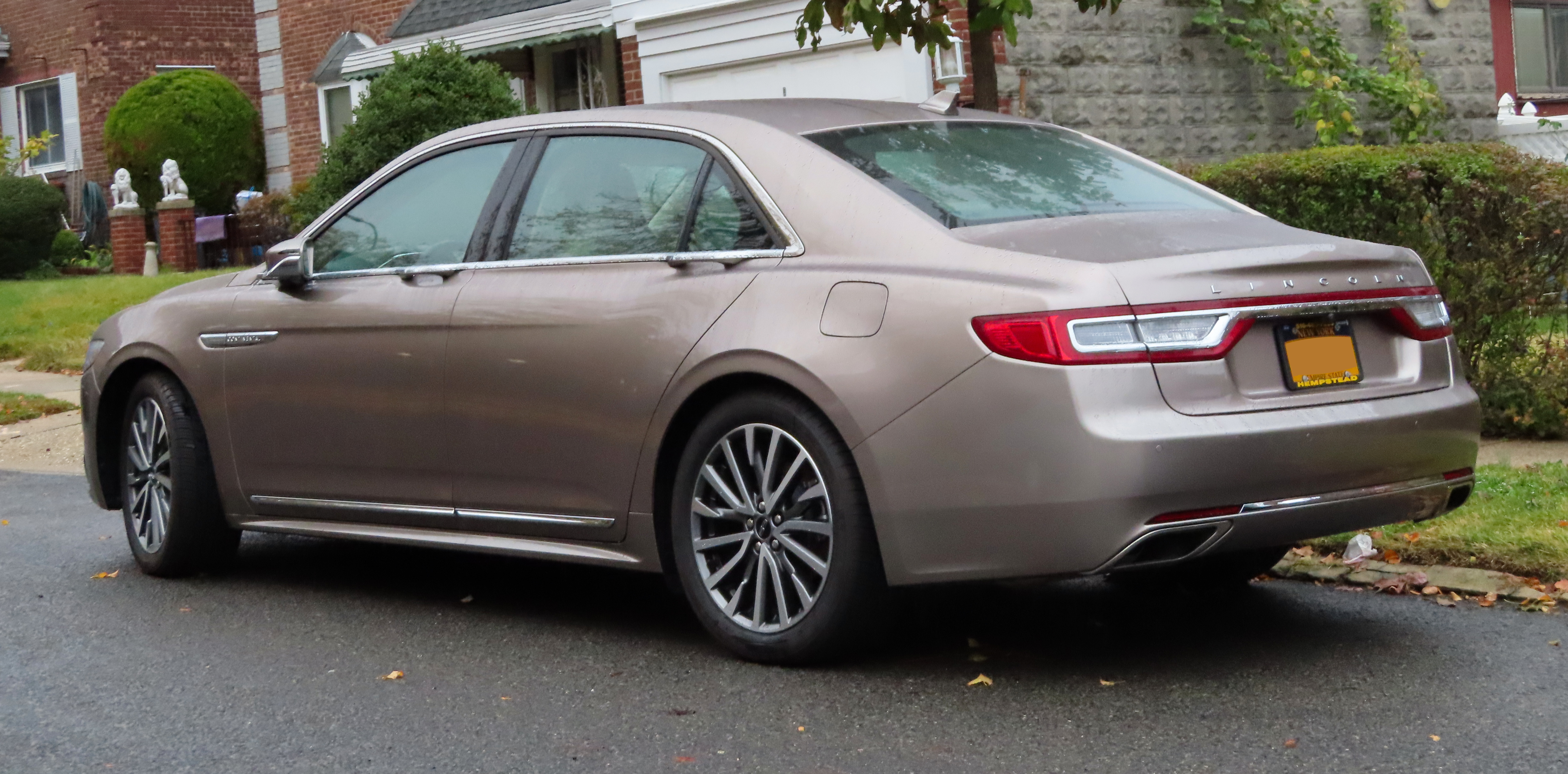 A 2019 Lincoln Continental photographed in Fresh Meadows, Queens, New York, USA